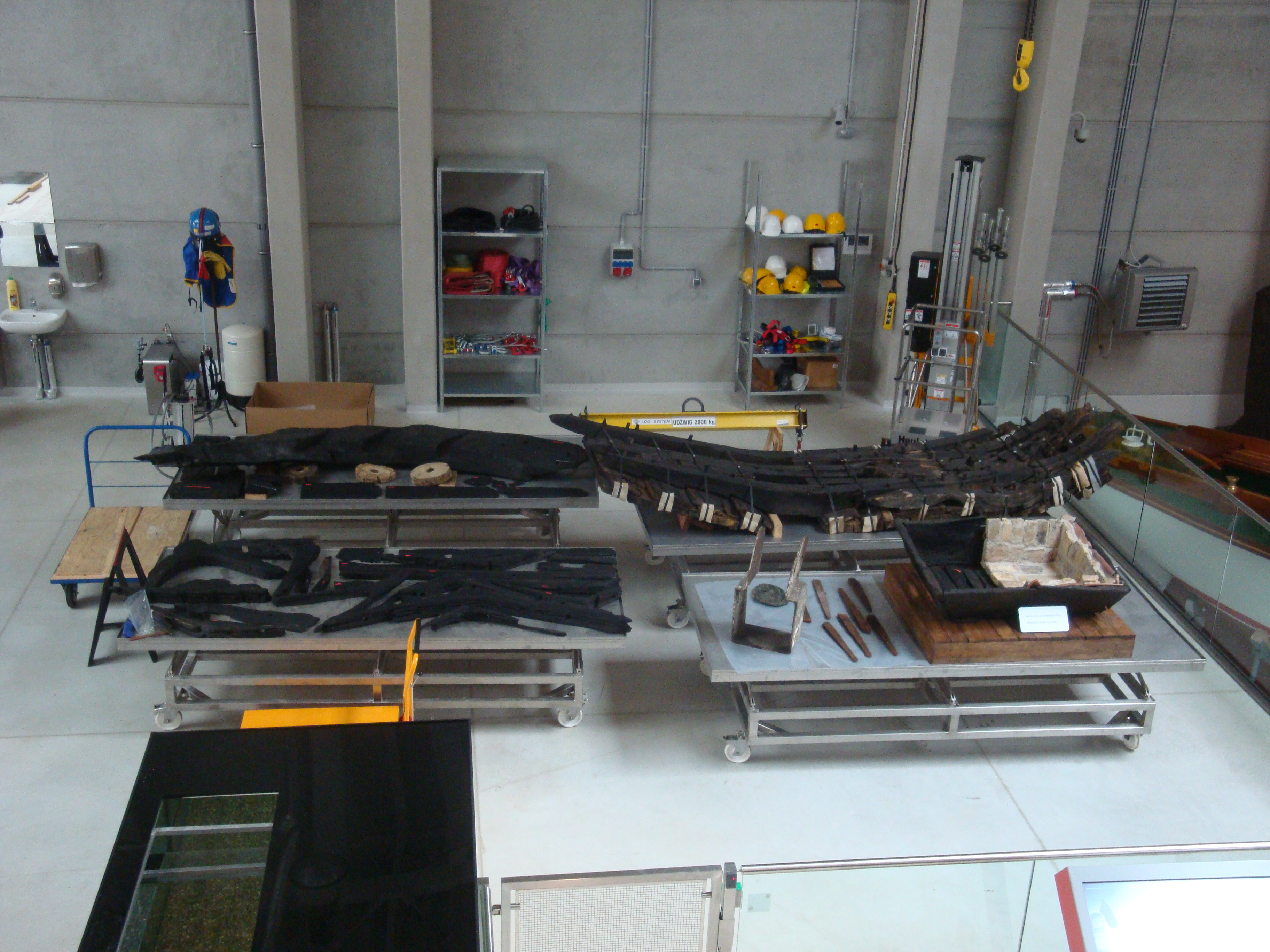 Workshop part of Shipwreck Conservation Centre in Tczew, Poland. Centrum Konserwacji Wraków Statków (Shipwreck Conservation Centre) in Tczew is branch of National Maritime Museum in Gdańsk, Poland. Museum takes care about relicts of ships and boats and keeps exhibition of renovated items.